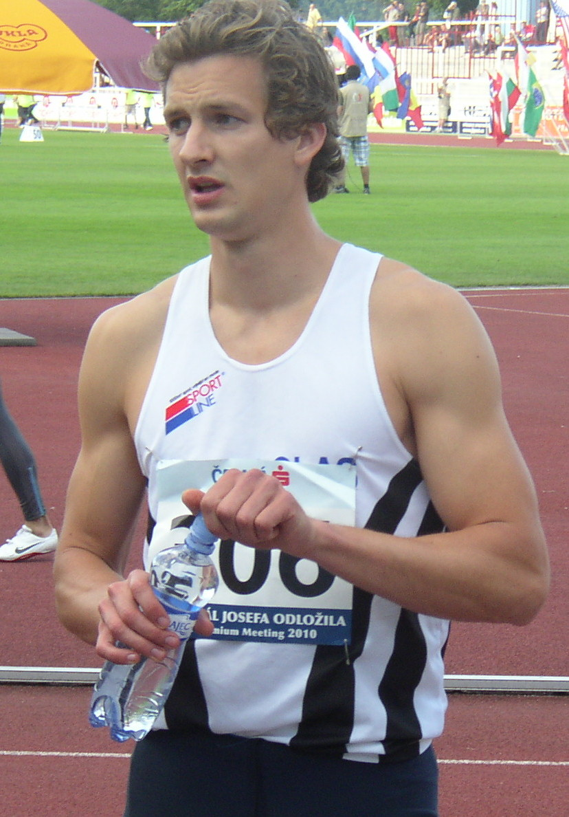 Athlete Michael Bultheel of Belgium before his start in men's 400 m hurdles race at 17th edition of the Josef Odložil Memorial (EAA Premium Meeting, Na Julisce Stadium, Prague, Czech Republic, 14 June 2010). Bultheel won the race in his new personal best of 49.41 s.